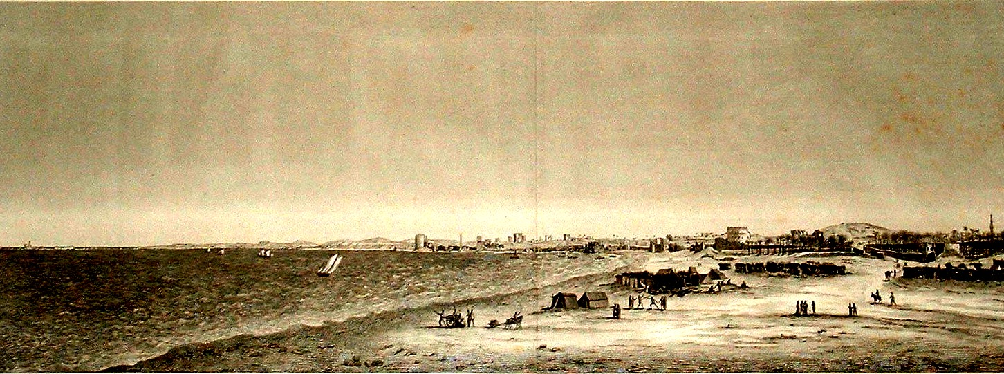 Alexandria old drawings